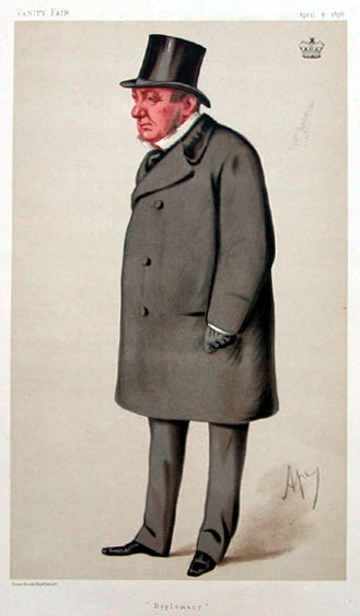 Caricature of Richard Lyons, 1st Viscount Lyons. Caption read "Diplomacy".